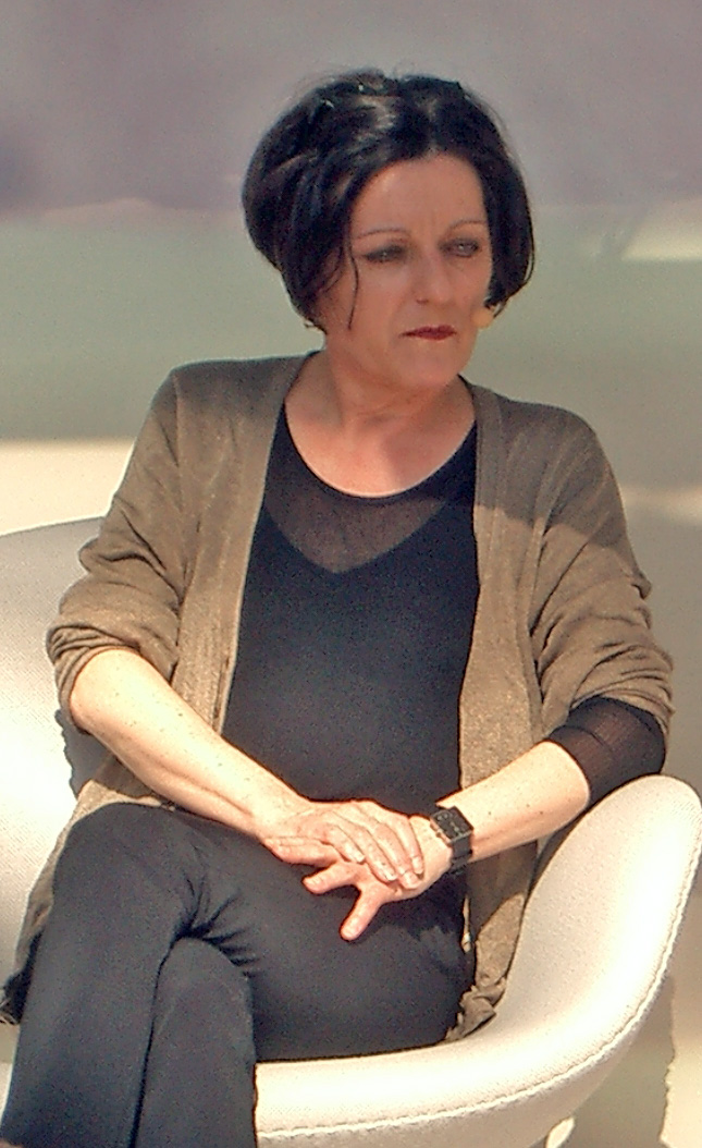 Herta Müller, Nobel laureate in literature 2009, at the Leipziger Buchmesse 2007